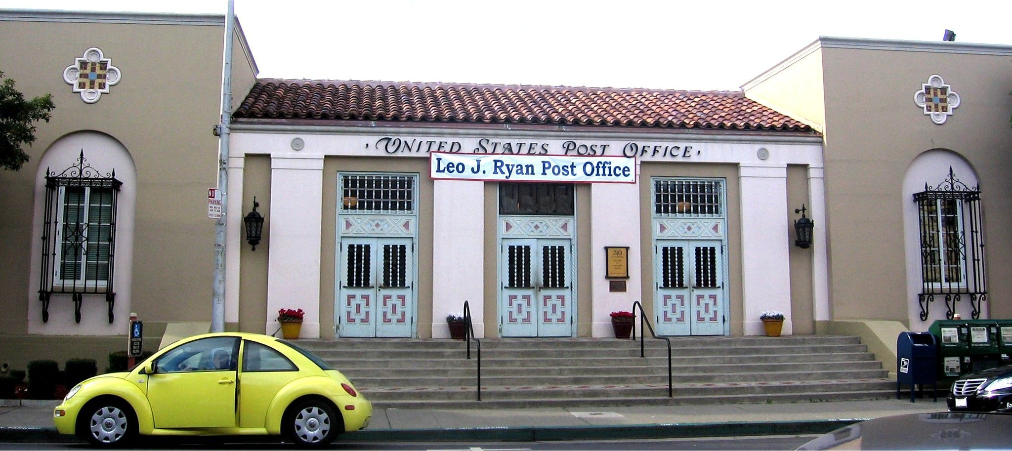 Leo J. Ryan Post Office Building at 210 South Ellsworth Avenue in San Mateo, California